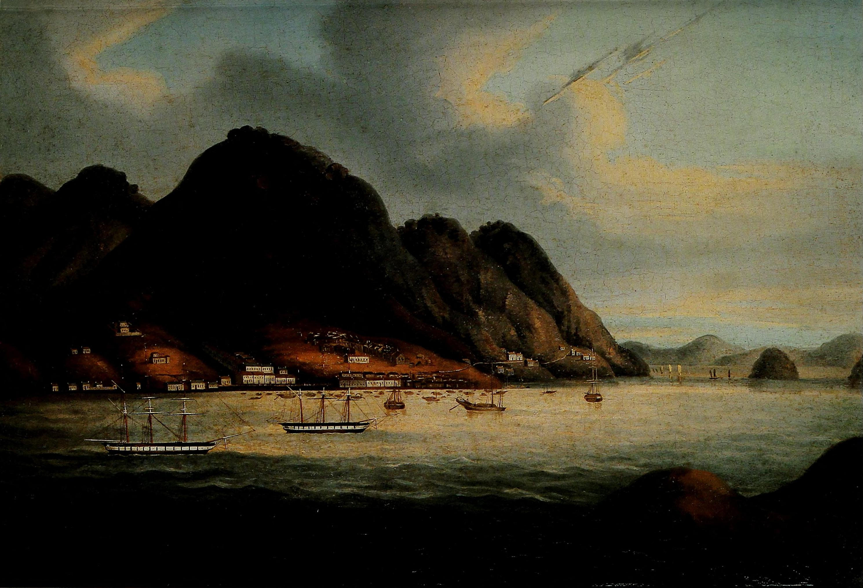 Possibly the earliest oil painting of Hong Kong Island, showing the path along the north shore (right) as it approaches the early waterfront settlement which became the town of Victoria.